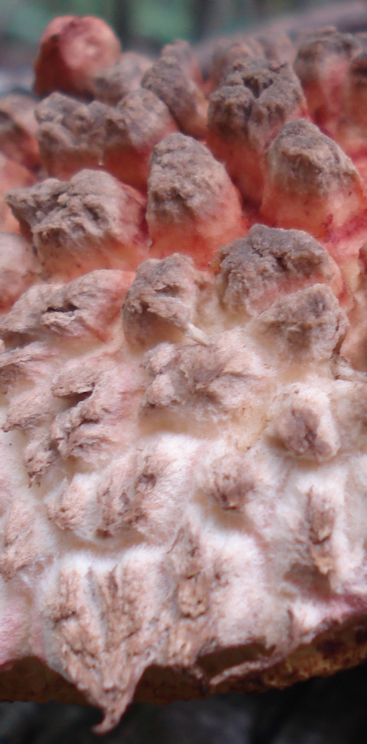 Closeup of the cap surface of the bolete mushroom Boletellus ananas (M.A. Curtis) Murrill. Specimen collected in El Roble, Mpio de Emiliano Zapata, VERACRUZ, MEXICO. Original photograph from Mushroom Observer site cropped by uploader.